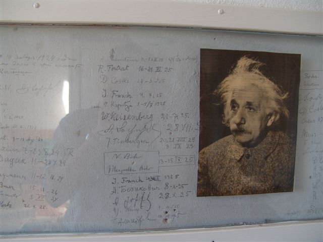 Ehrenfest House: wall signatures 15 Left column:(compare Ehrenfest house, other image (text in Russian handwriting) ..10..1924../(text in Russian handwriting)/ Pjotr Kapitza 5.IV - 22 IV 1922 A.... (??) R. A. Millikan 6/6/1923 - 4 G. Hertz 7.6.1924 Leonn.. B. L... 21.6.1924 Ada Vogel 7-12 Aug(?) 24 Einstein 7-23 X 1924 K {\displaystyle {\sqrt {K } Y Faicek? 11-23 X 24 (Russian handwriting) A. Frumkin 11-12.11.1924 (Russian handwriting=Alexander Naumovich Frumkin (1895–1976)) E. Bauer 14-11.24 (??) 1 XII 24(?) G. Hertz 21.1.25 Middle column: A. Einstein ..-13 X 25 (?)(mathematical formula) R. For.. D. Coster J. Franck P. Kapitza W. Heisenberg A ..? (call it XX1) J. Tinbergen N. Bohr 13-15 IX 25 Margrethe Bohr J. Franck A..??(Russian) A. Joffé Y ..? (Russian) P. ..? (Russian) Right column: N. Bohr Einstein (?) D. Coster (?) (?) (?) (XX1 again) D. Coster A. Einstein (?) L. ..(?) R. (A. Millikan again?) (?)